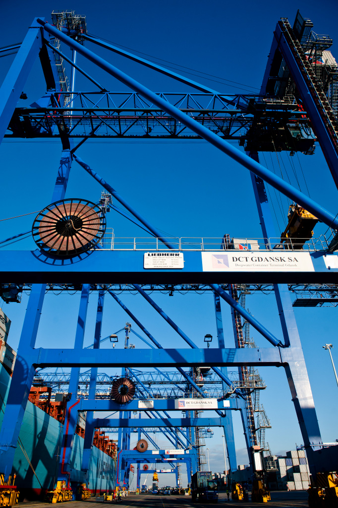 Deepwater Container Terminal Gdansk, Dec 2011